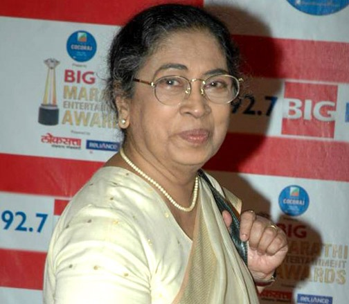 Indian actress Sulbha Deshpande